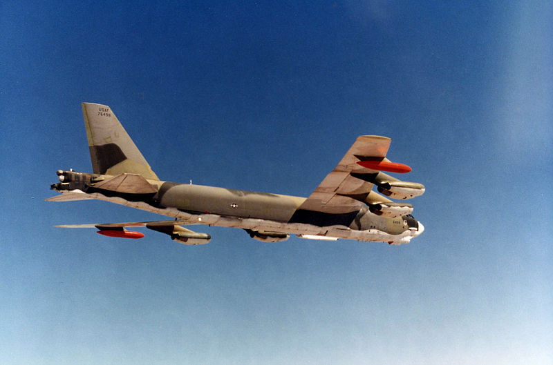 Boeing B-52G-75-BW Stratofortress 57-6475 over the skies of Vietnam, 1968. Later during the 1991 Gulf War, this aircraft under code name "Secret Squirrel" was one of seven B-52Gs that made return flight from Barksdale AFB, LA to fire 39 AGM-86C cruise missiles on the first night (Jan 16/17, 1991) of Operation Desert Storm. Retired To AMARC as BC0378 8/20/91